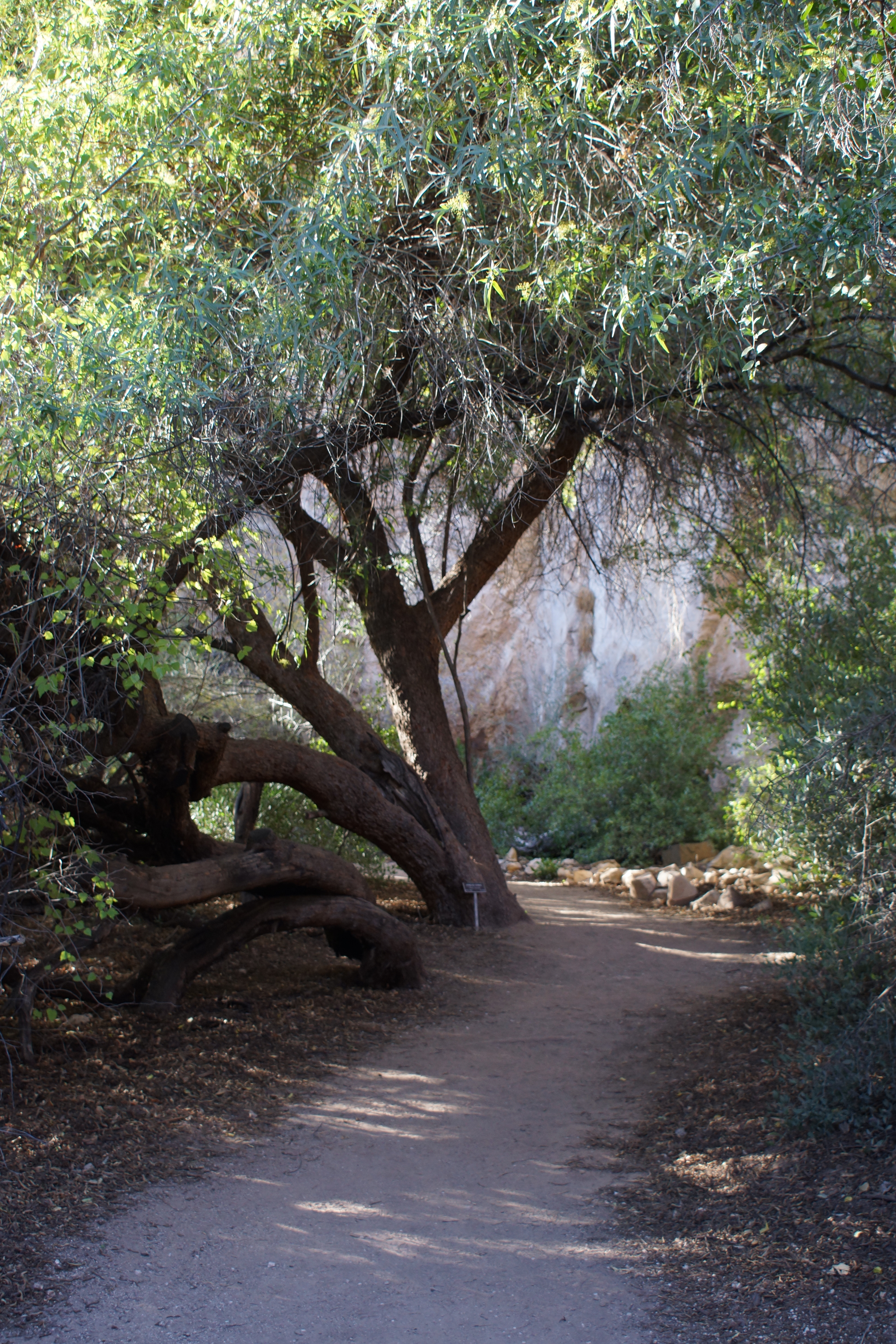 2013, African Sumac, Rhus lancea, After Decades of Judicious Pruning